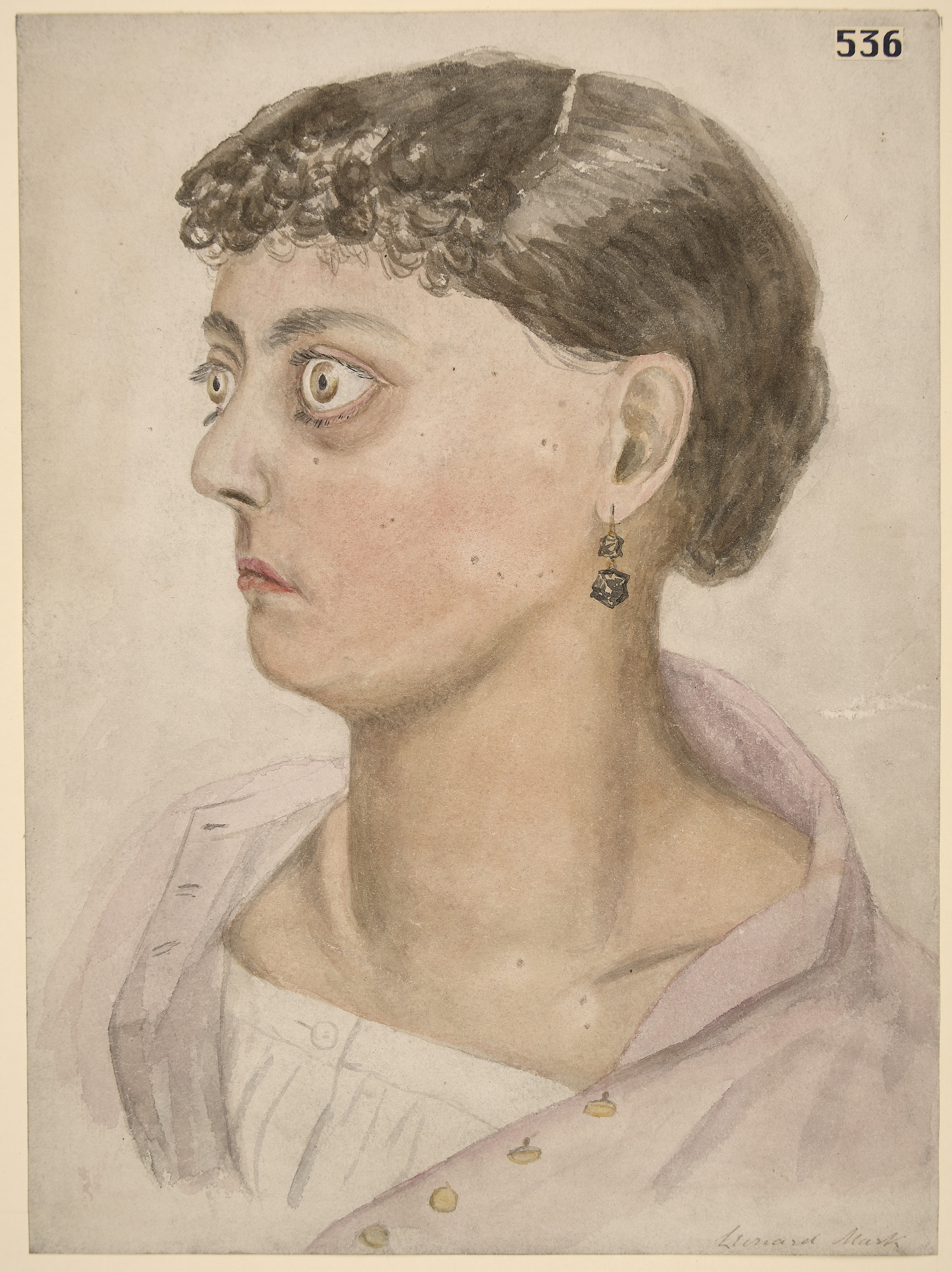 Watercolour drawing of the head and neck of a young woman who had exophthalmic goitre. Medical Photographic Library Keywords: Mark, Leonard Portal